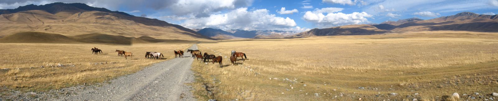 On the way to Naryn, steppes in Kyrgyzstan.